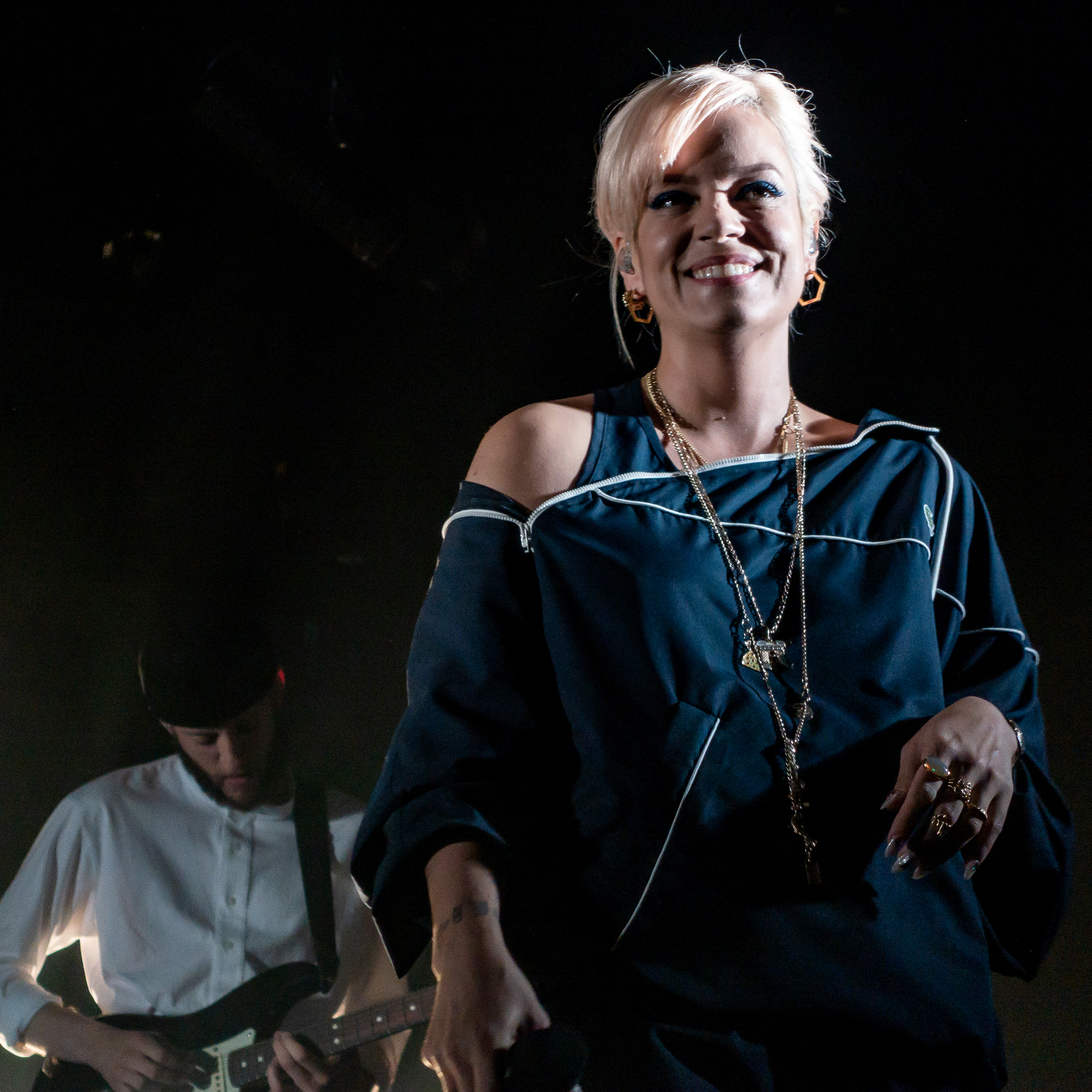 Lily Allen performing live at the El Rey Theatre in Los Angeles, California, on Wednesday, April 25, 2018.